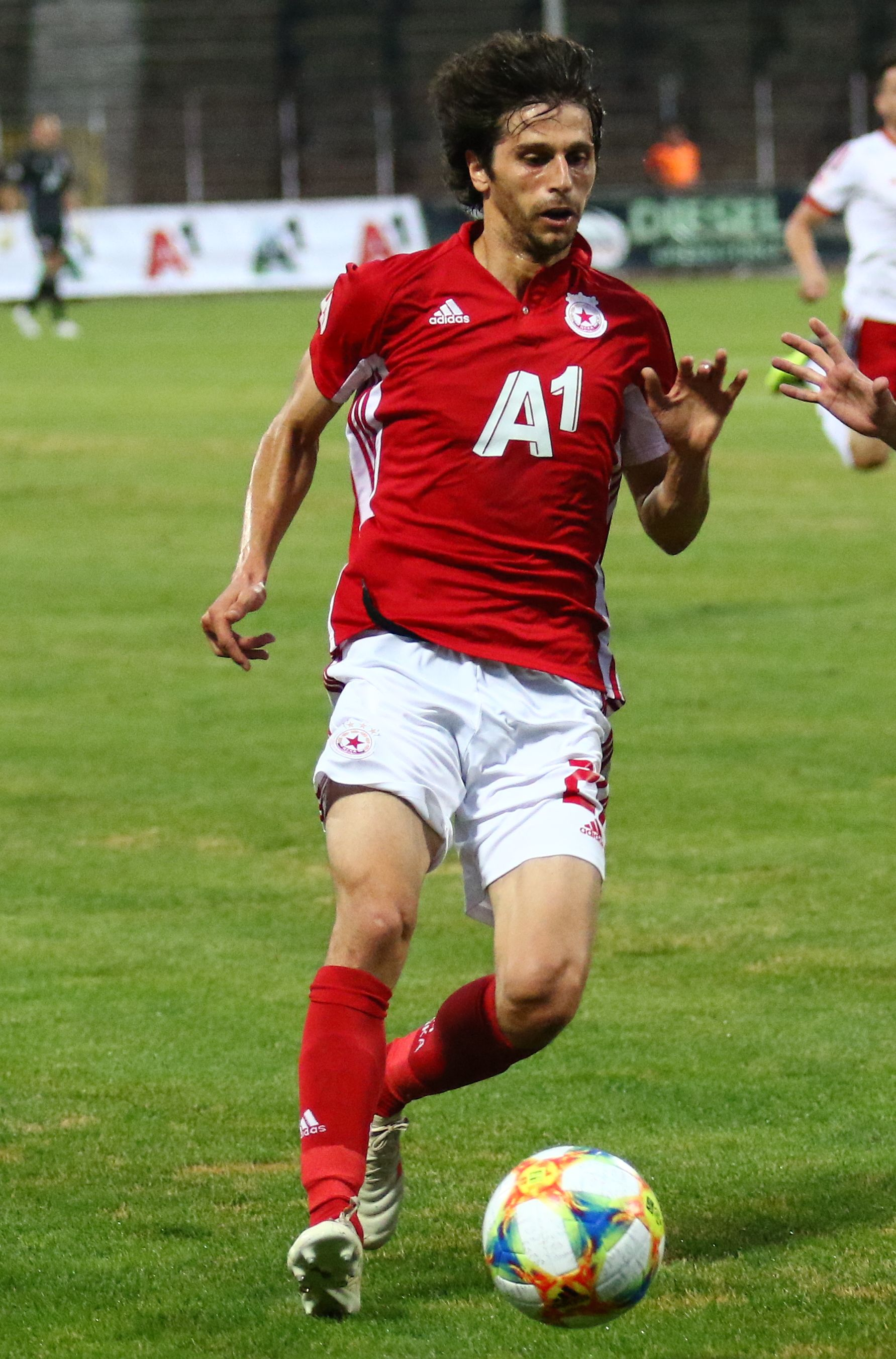 Diego Fabbrini - Italian professional footballer who plays as a midfielder for Bulgarian First League club CSKA Sofia.